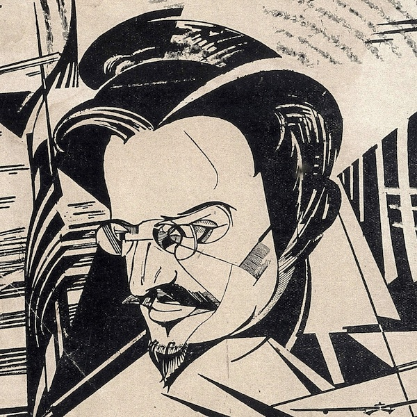 Stylized cubist cartoon of Trotsky